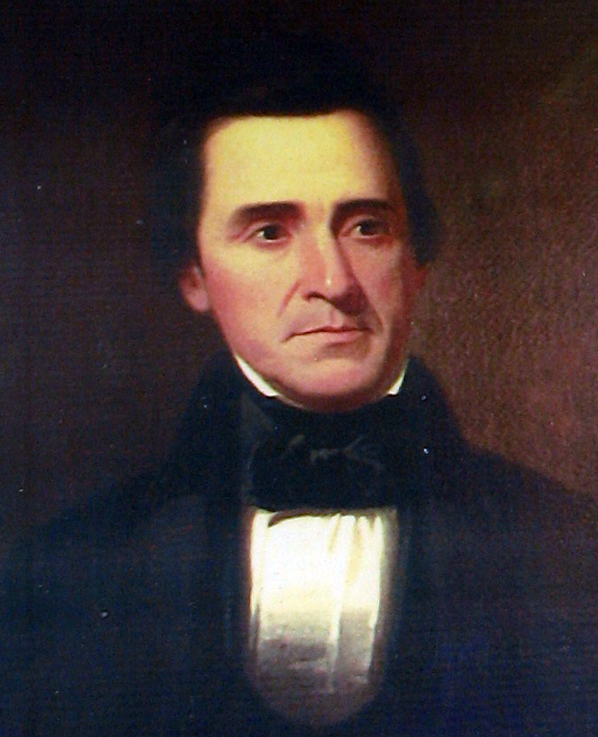 David Rice Atchison painting by George Caleb Bingham (which was at Atchison's home in Clinton County). Photo of painting in September 2007 came from exhibit at Clinton County Courthouse.